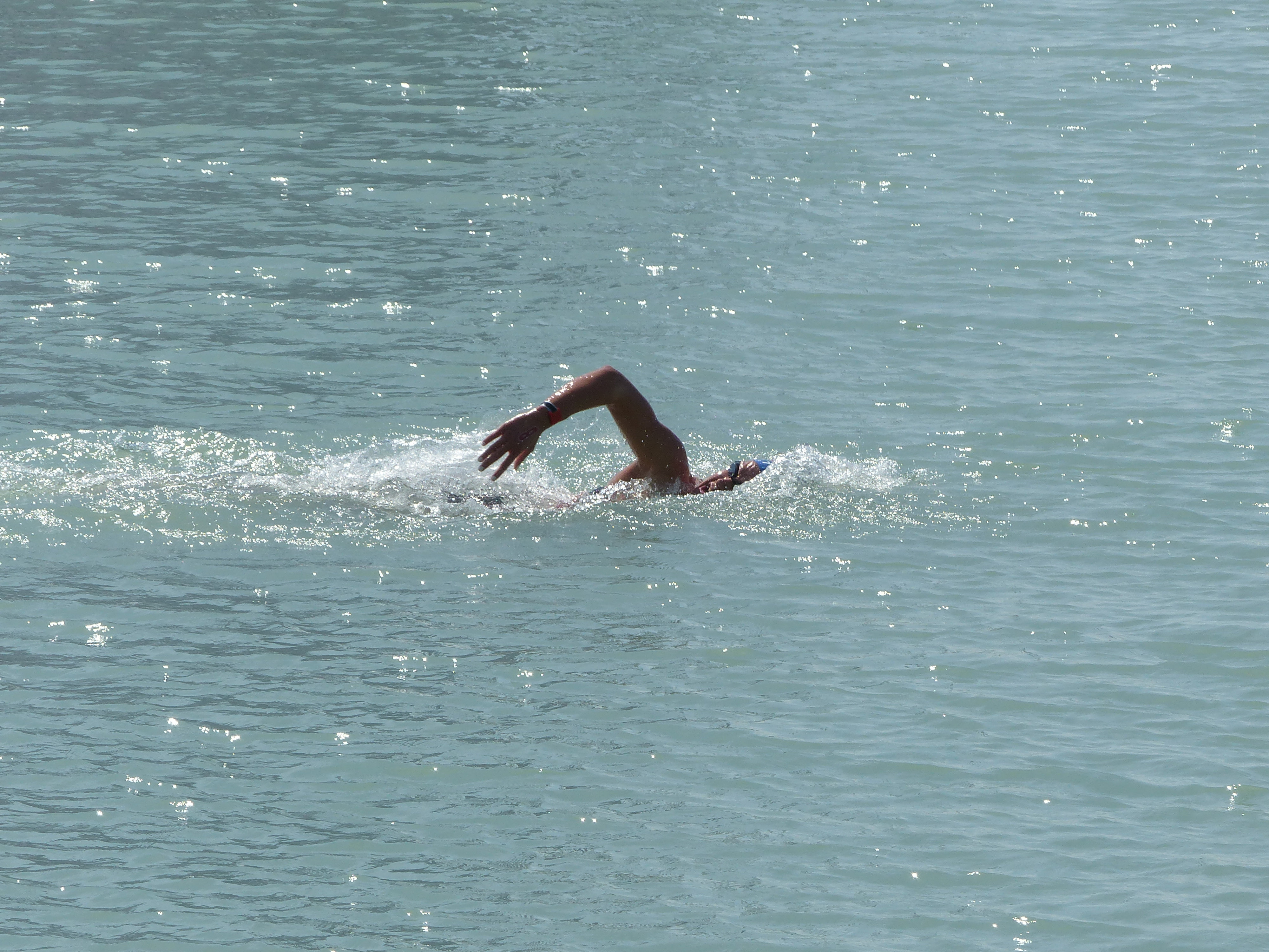 Evgenij Pop Acev (8). 2017 World Aquatic Championships. Budapest - Balatonfüred. Taken on the 21st of July, 2017. Balatonfüred, Hungary, Central Europe. Open water swimming.